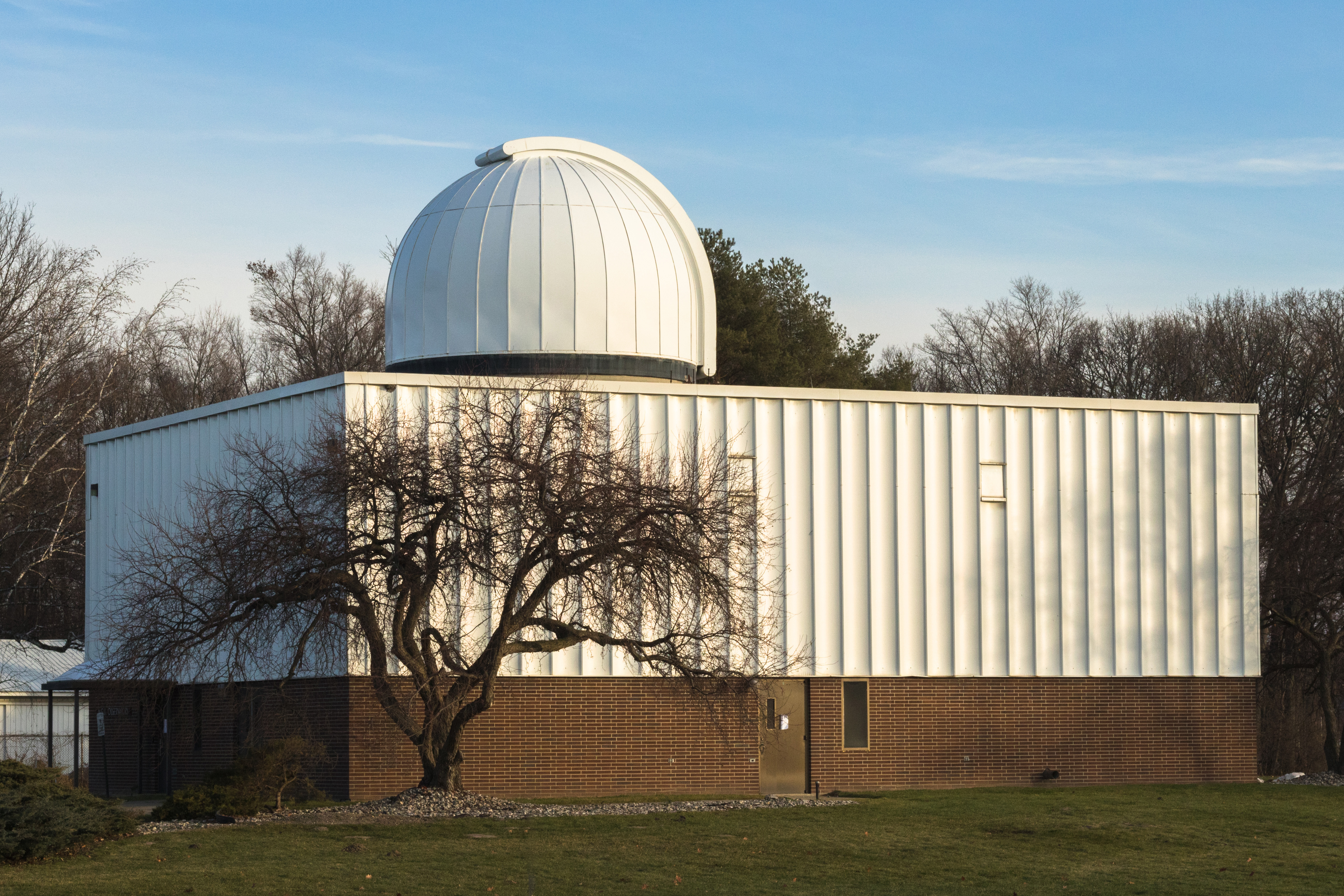 Michigan State University Observatory, 4299 Pavilion Dr, Lansing, Michigan.